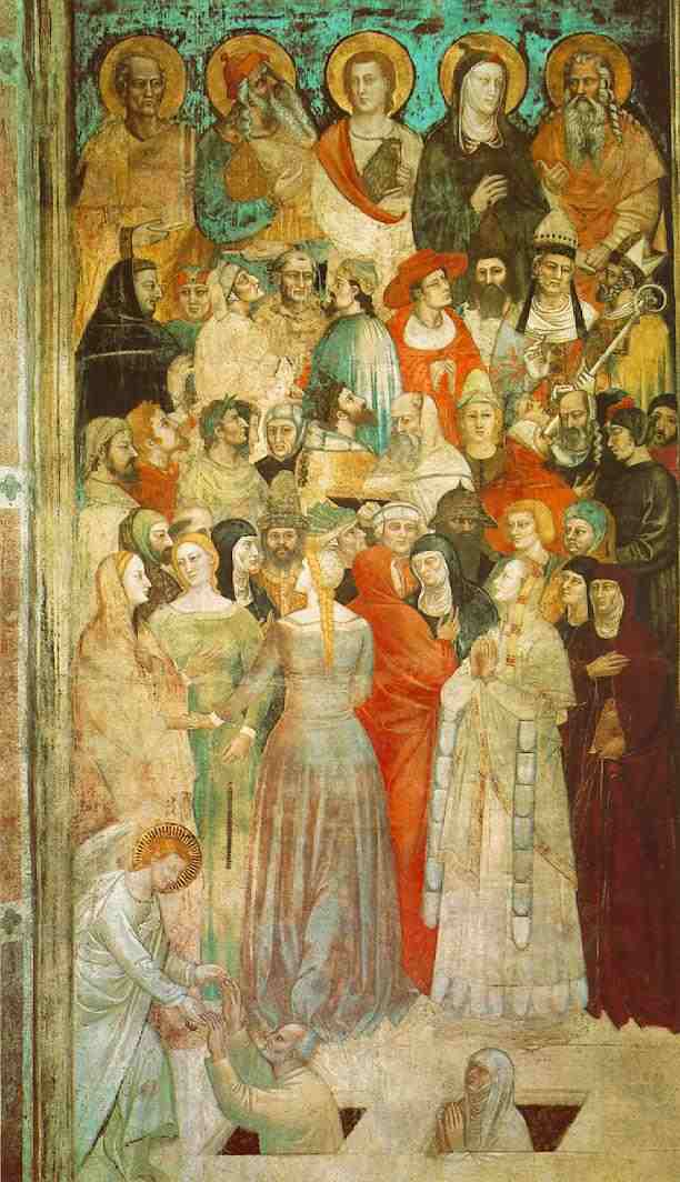 The Last Judgment (detail)